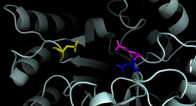 Active Site of Dispersin B made in Pymol